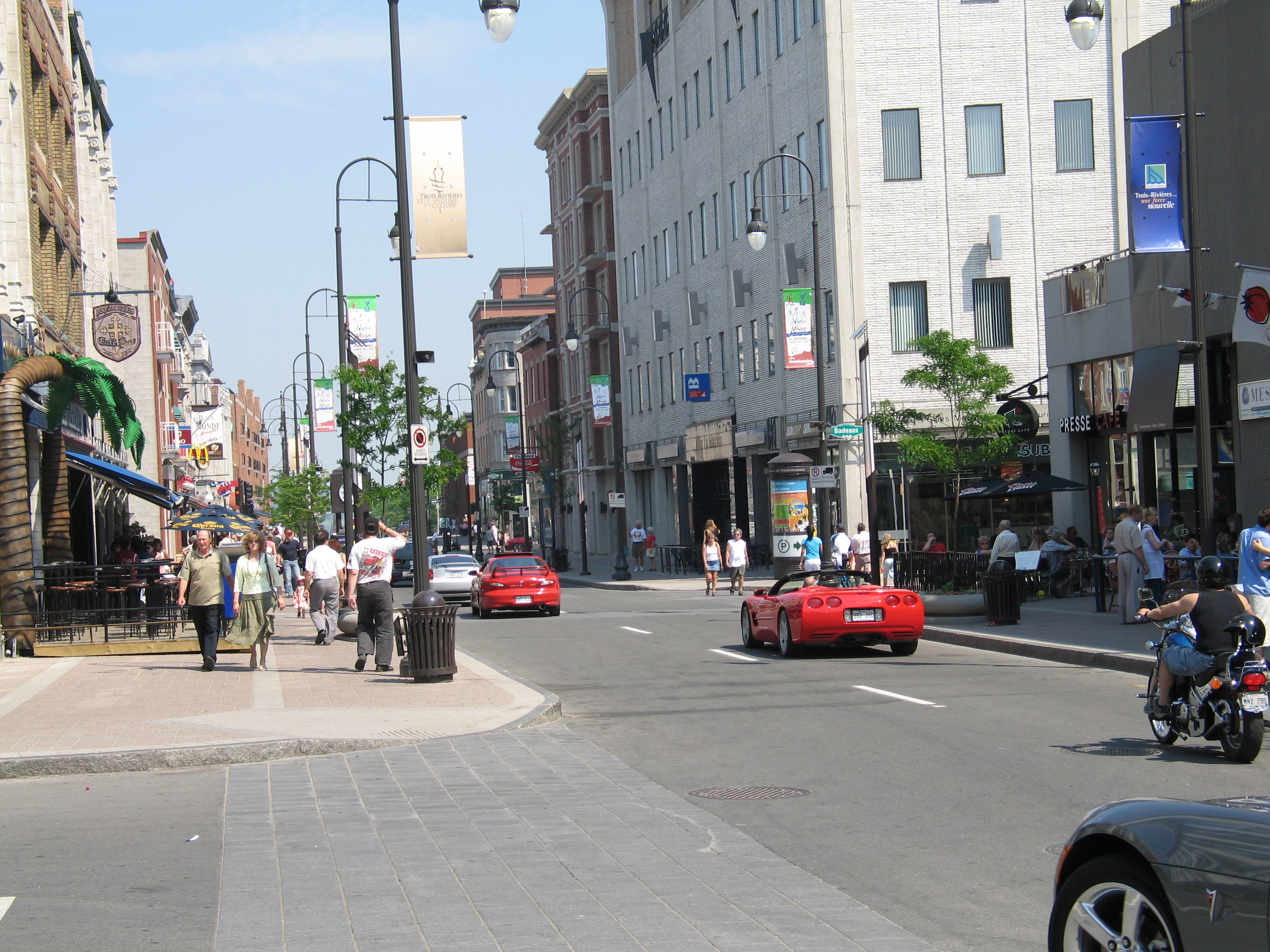 Boulevard Des Forges in downtown Trois-Rivières.